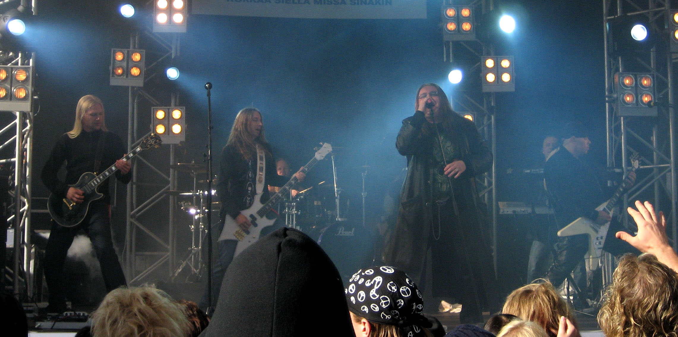 Picture of the Finnish heavy metal band Kilpi